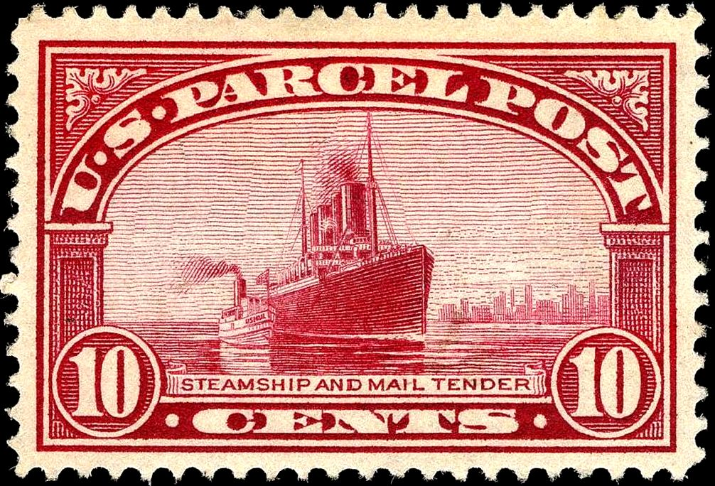 Image of parcel Post stamp, depicting steamship